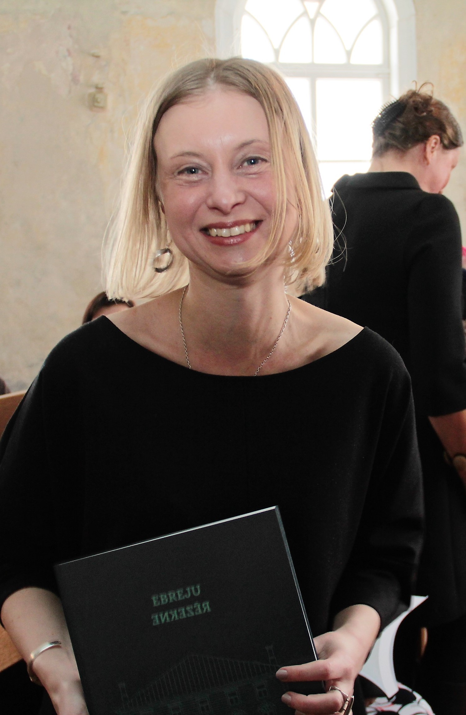 Ineta Zelča Sīmansone, Latvian curator, the head of research project “Jewish Rēzekne”